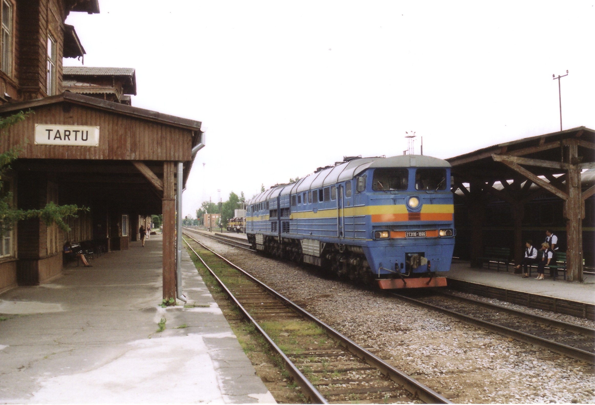 2TE116 in Tartu station, Estonia, No. 2T3116-11892TEM10 in Tartu